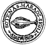 The insignia for Sotenäs hundred in Sweden. Date of publication: 1746